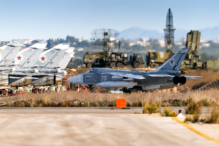 96L6 acquisition radar is the right-most radar in background.